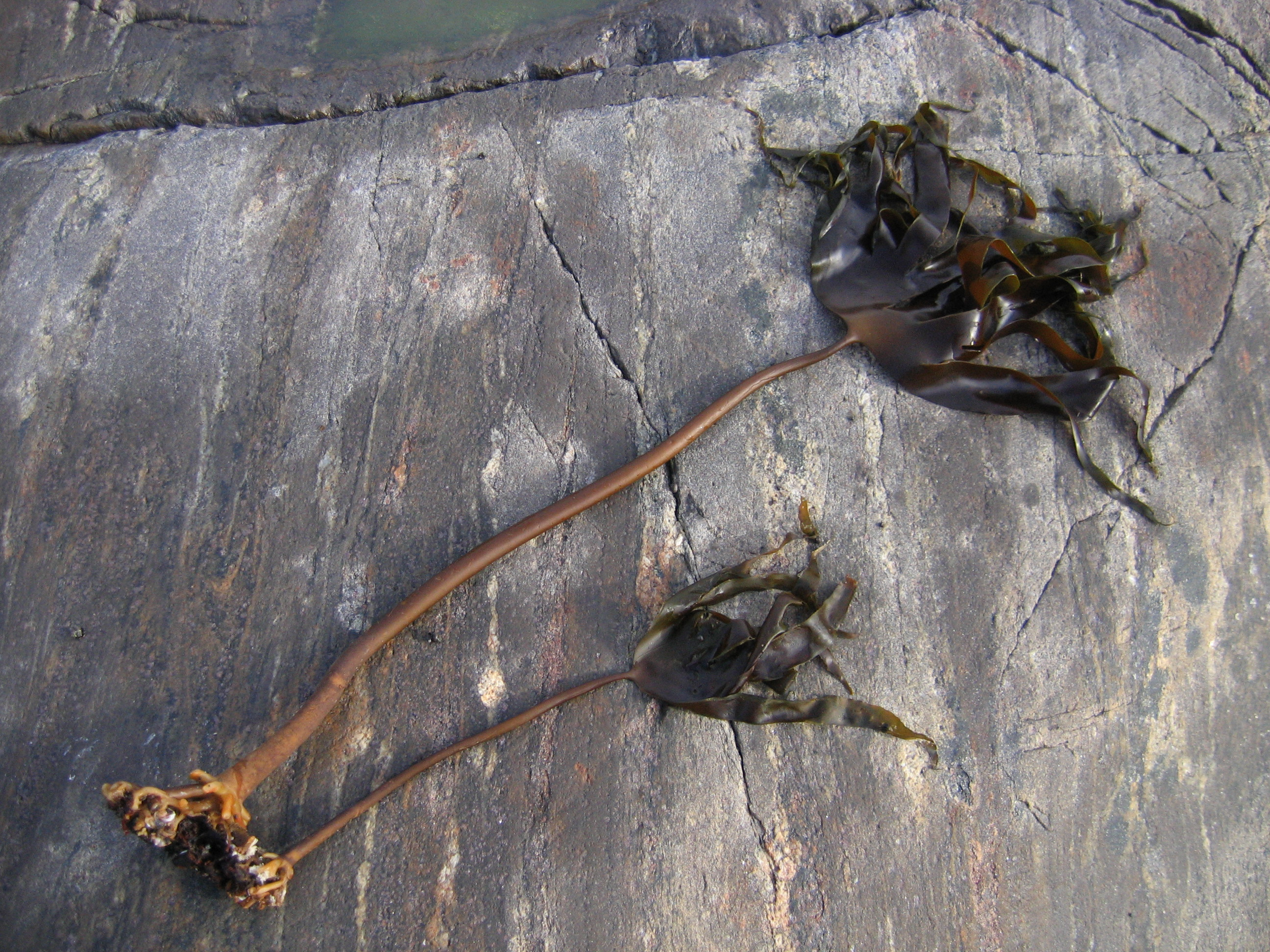 Small laminaria hyperborea